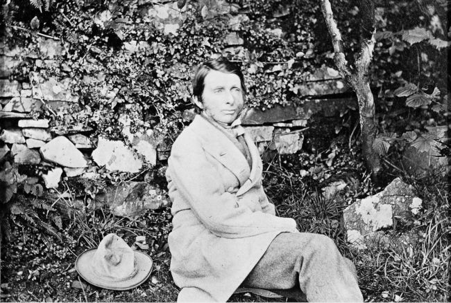 A portrait of John Ruskin in his mid-life, by Sutcliffe, 1873. Collection of the Guild of St. George, Museums Sheffield.